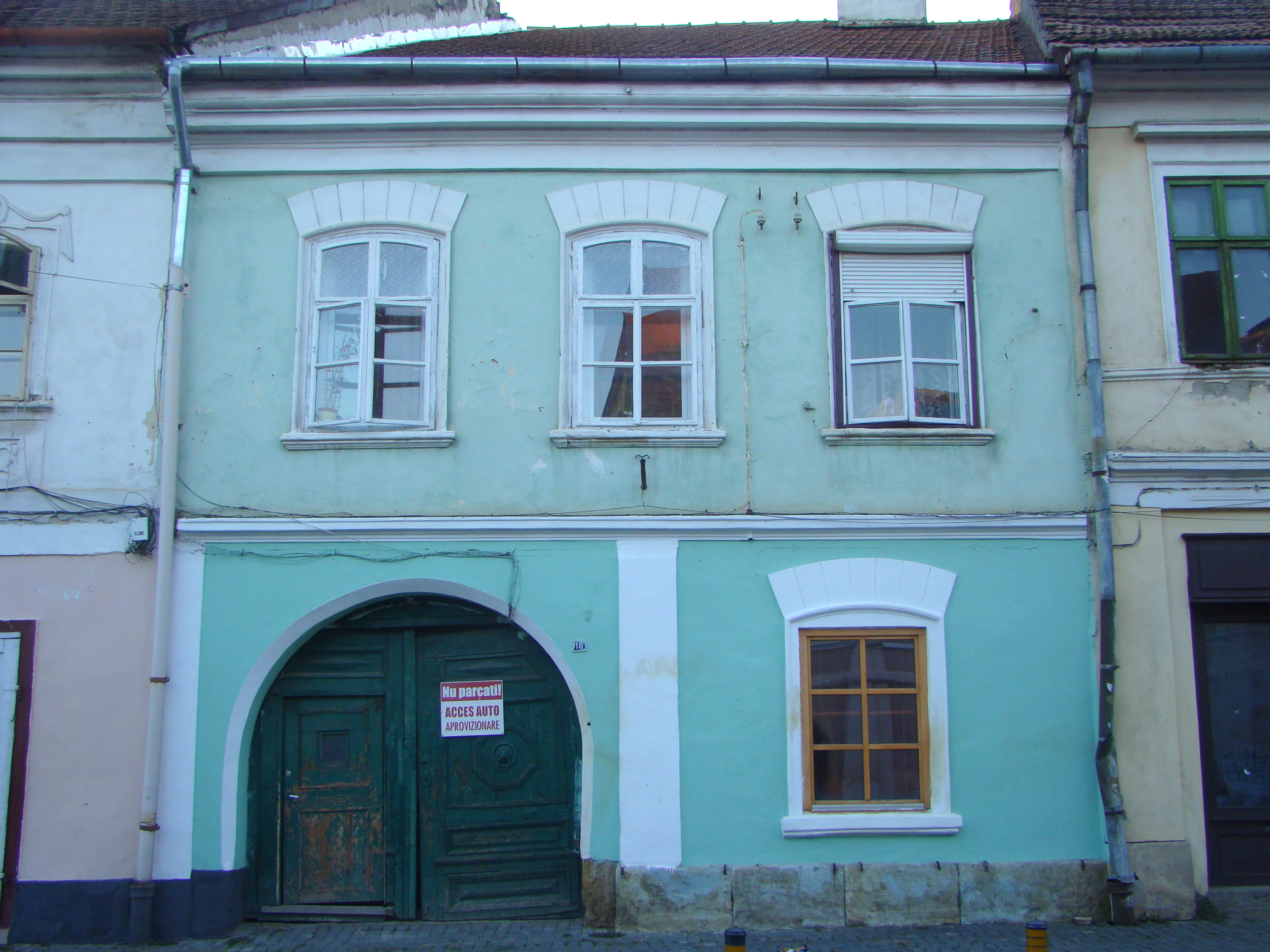 House, historic monument, in Bistrița, Nicolae Titulescu street 16